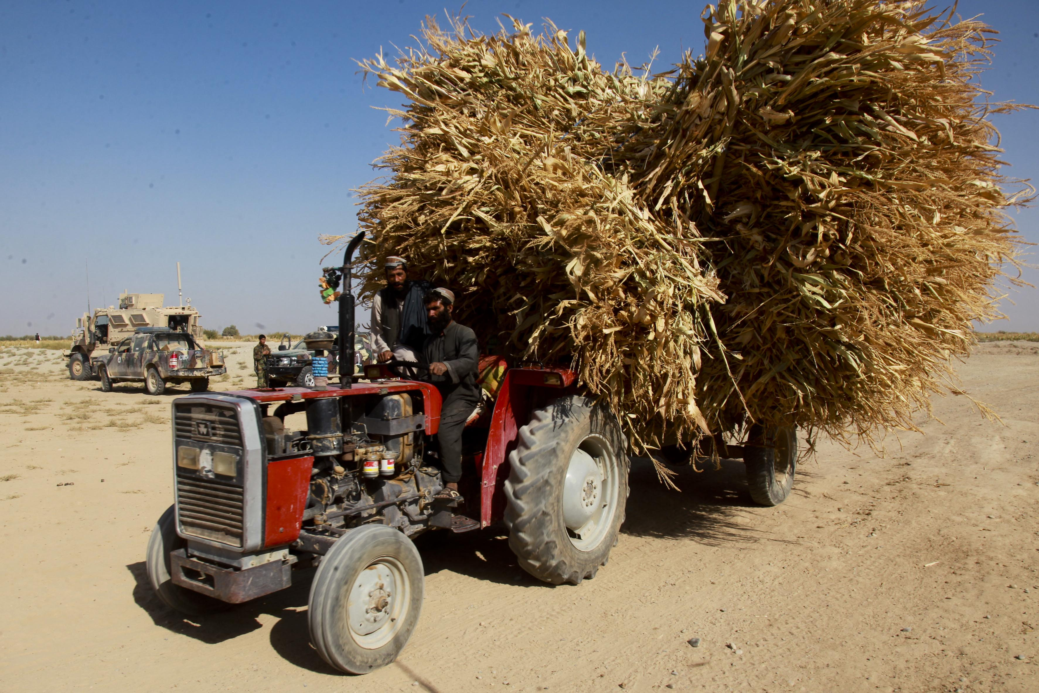 An Afghan farmer passes through a vehicle checkpoint controlled by the U.S. Marine Corps in Nawa district of Helmand province, Afghanistan, October 31, 2009.